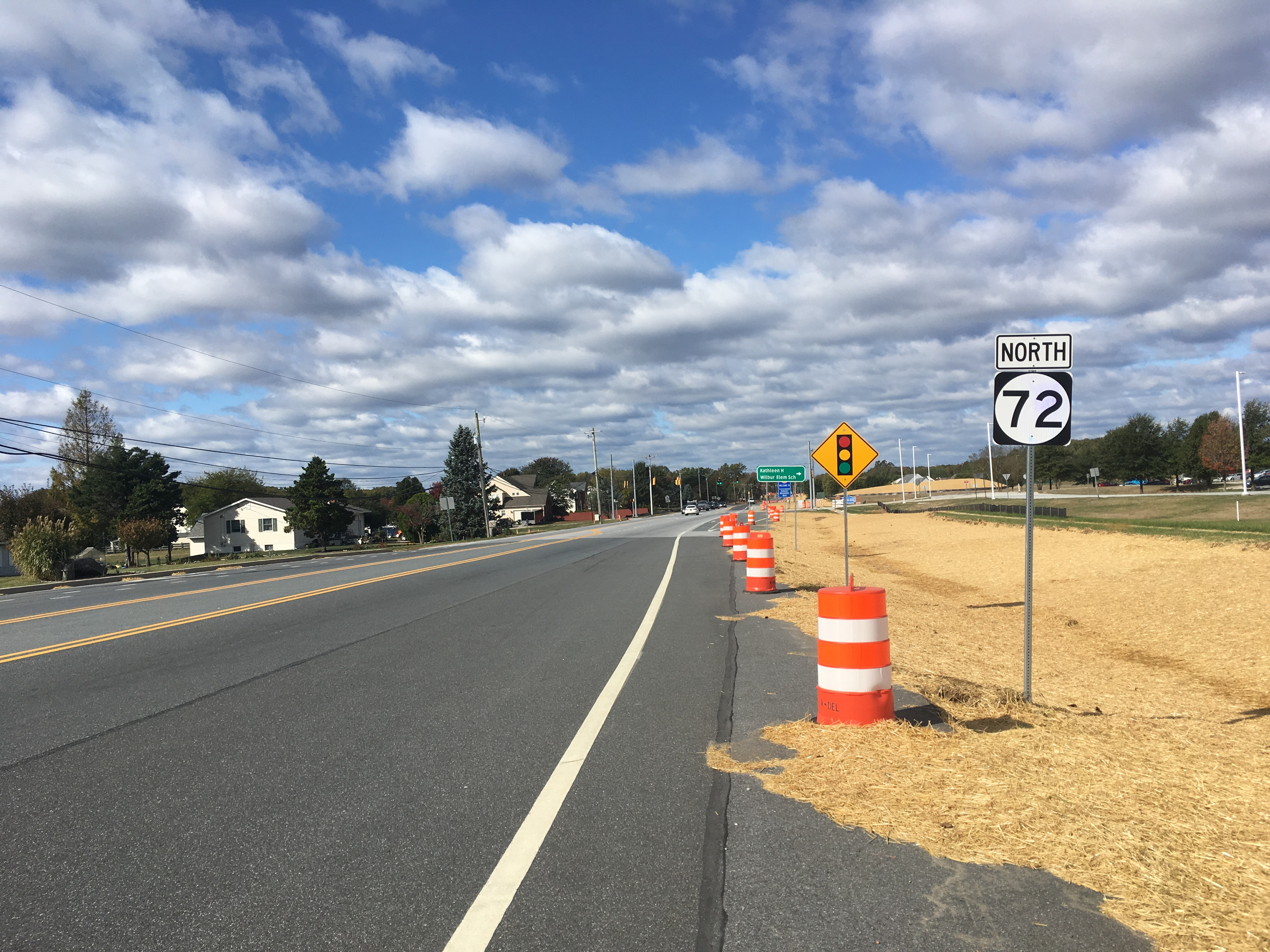 Northbound Delaware Route 72 (Wrangle Hill Road) past the interchange with U.S. Route 13/Delaware Route 1 (Korean War Veterans Memorial Highway) in Wrangle Hill, Delaware